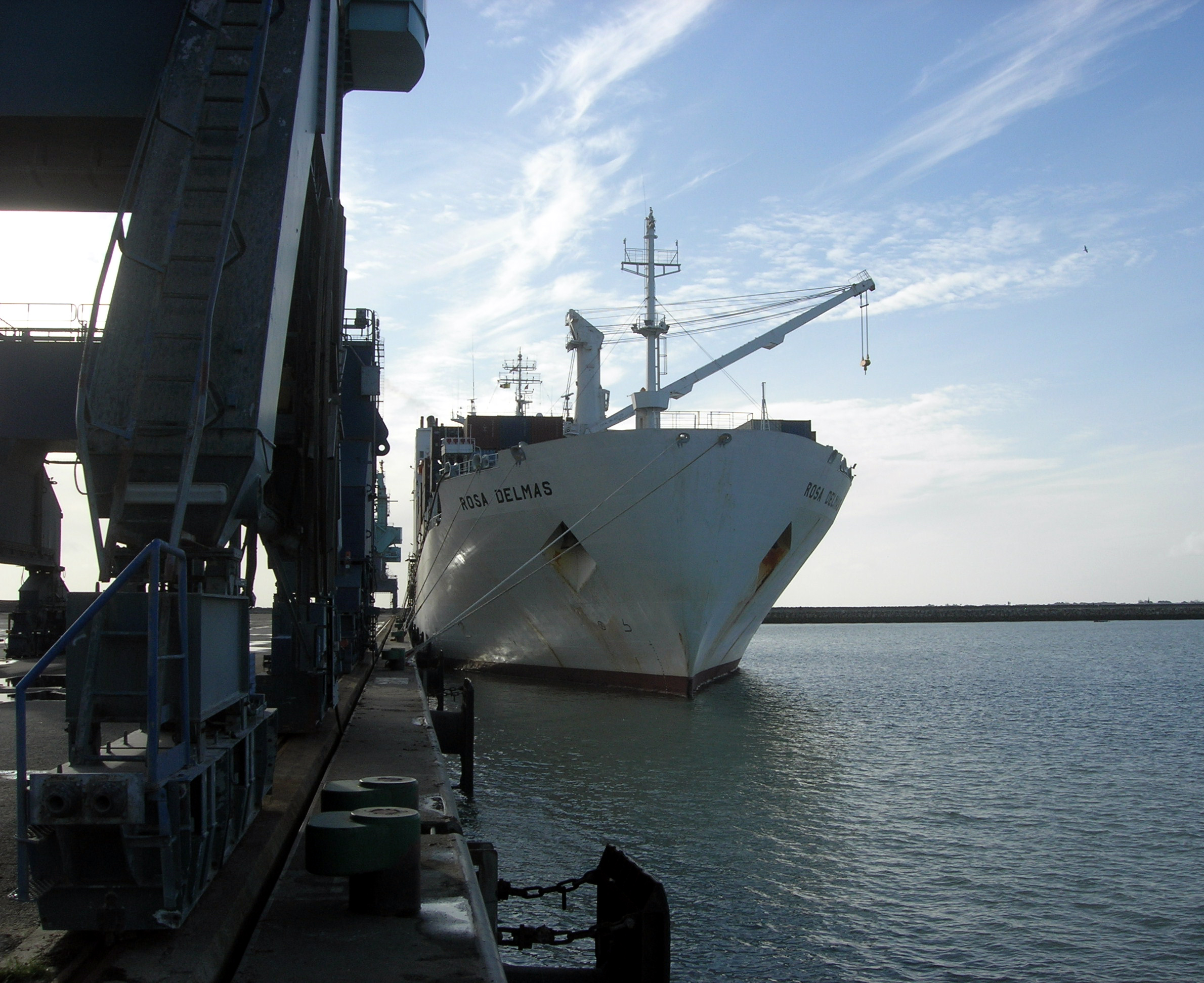 The MV Rosa Delmas (previously named Rosa Tucano) CMA-CGM's RoRo/Containership Ice Class. La Pallice harbour, La Rochelle, France